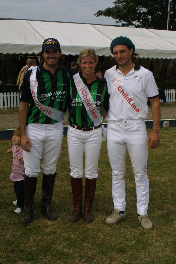 from left to right: Adolfo Cambiaso, Clare Milford Haven and Lolo Castagnola at the 2003 ChildLine polo day at Ham Polo Club, London